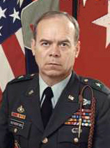 Official U.S. Army portrait of Jerry R. Rutherford